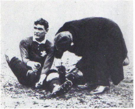 Jack Williams receiving treatment at half-time during the 1905 Wales vs All Blacks rugby union match